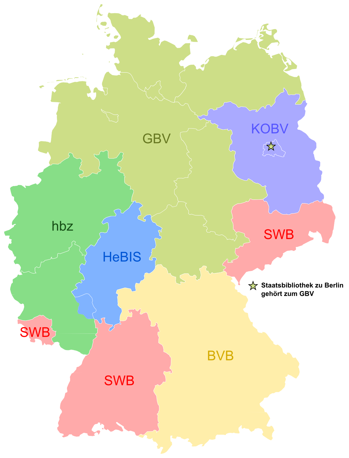 Union catalogs in Germany, January 2014 BVB = Bibliotheksverbund Bayern GBV = Gemeinsamer Bibliotheksverbund hbz = Hochschulbibliothekszentrum des Landes Nordrhein-Westfalen HeBIS = Hessisches BibliotheksInformationsSystem KOBV = Kooperativer Bibliotheksverbund Berlin-Brandenburg SWB = Südwestdeutscher Bibliotheksverbund